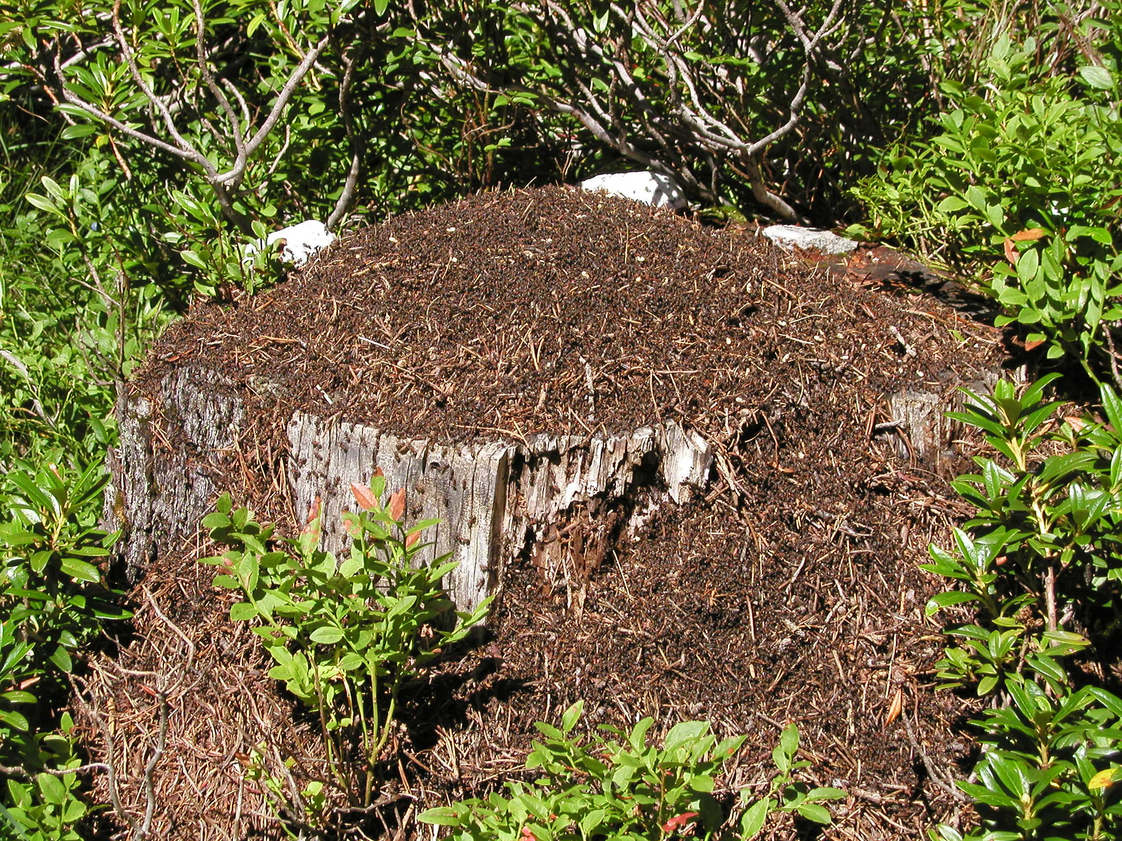 Ant mound of forest litter on rotted stump made by some species of thatching ant (genus Formica). The mound is covered by worker ants going out to forage, as they do on dry days.